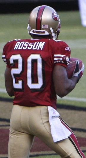 Allen Rossum scores a touchdown in a 2008 preseason game against the Green Bay Packers.